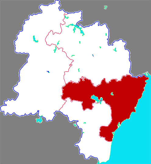 Location of Donggang district in Rizhao City, China